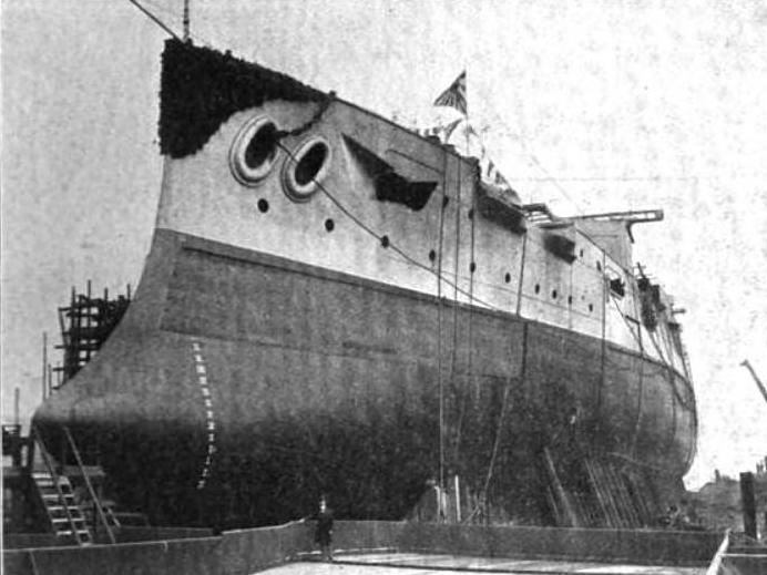 Photograph of the Japanese battleship Hatsuse ready to launch